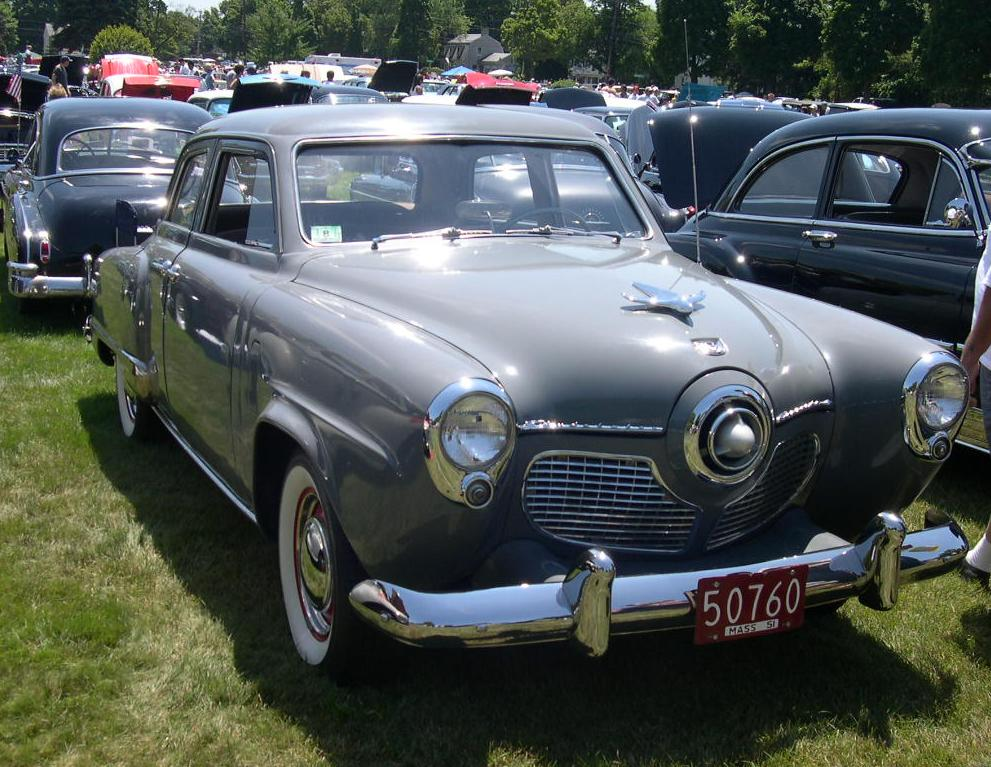 1951 Studebaker Commander Source: Photographed at the Bay State Antique Automobile Club's July 10, 2005 show at the Endicott Estate in Dedham, MA by User:Sfoskett